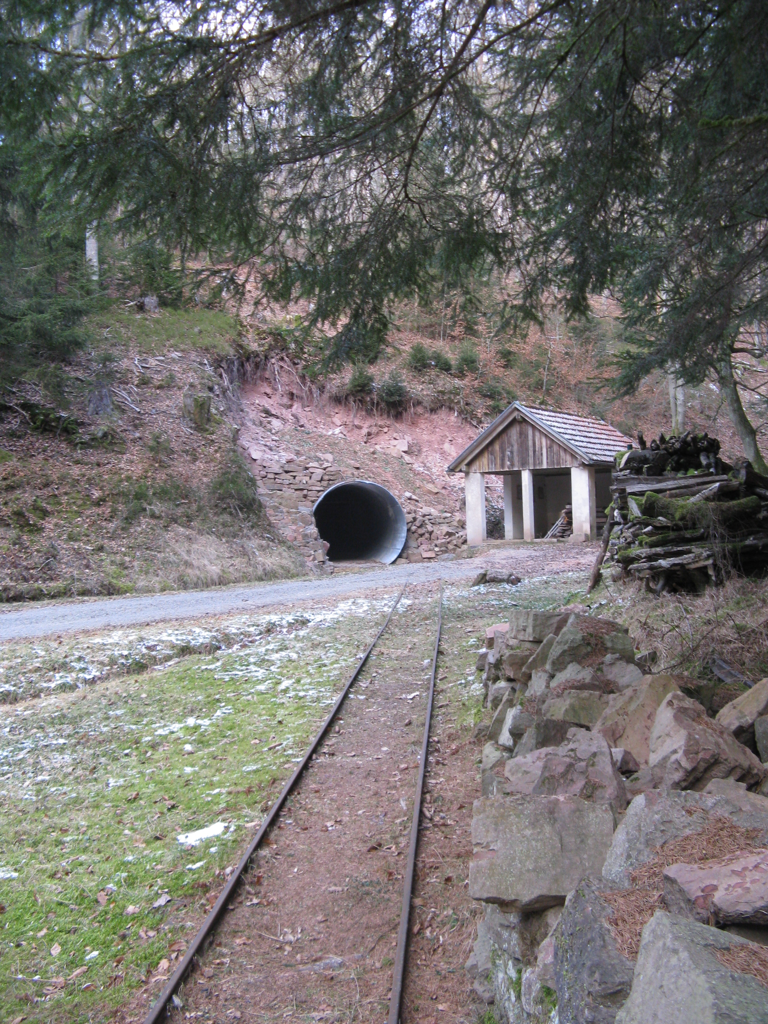 Old baryte mine, Partenstein/Spessart (Germany)